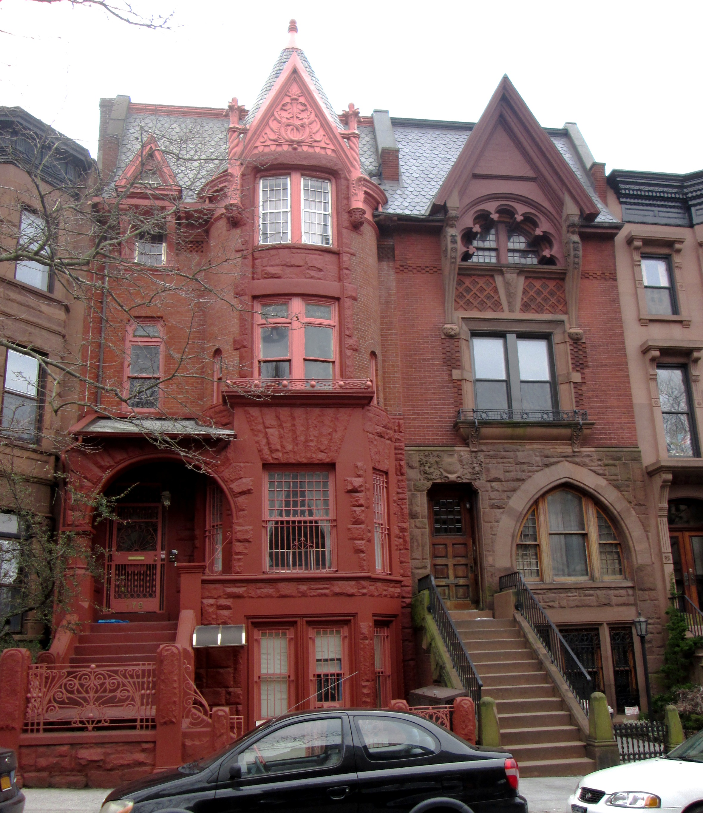 176 (right) and 178 (left) St. John's Place between Sixth and Seventh Avenue in the Park Slope neighborhood of Brooklyn, New York City were built in 1887-88 as residence for William M. Thallon and Edward Bunker, respectively., who were both physicians; a caduseus can be seen in the ornamentation on the gable of #178. The houses were designed by Rudolphe Daus in the Queen Anne style, and are located within the Park Slope Historic District. (Sources: AIA Guide to NYC (5th ed.) and "Park Slope Historic District Designation Report"